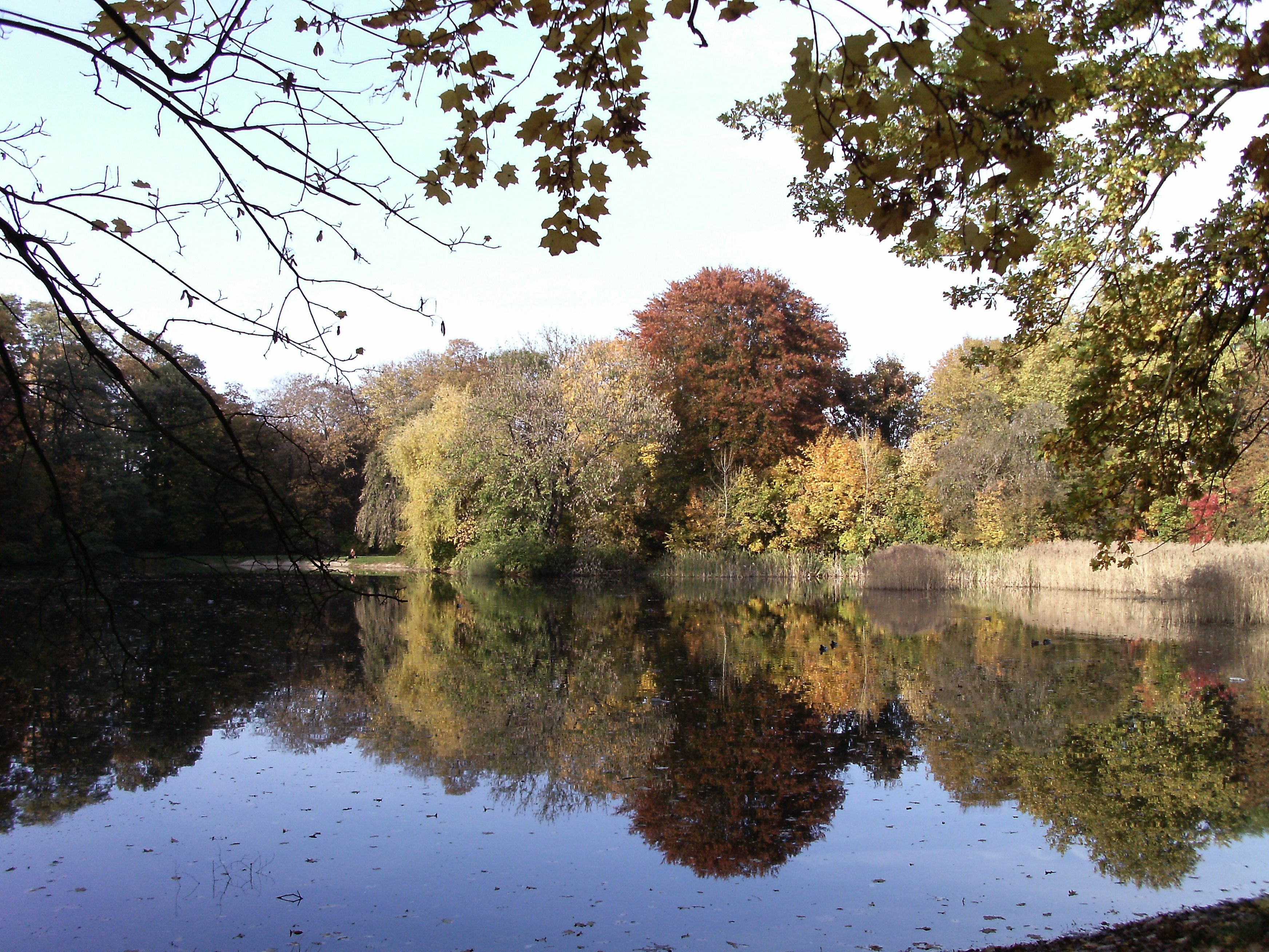 Pond in Stünz Park (Leipzig, Saxony)